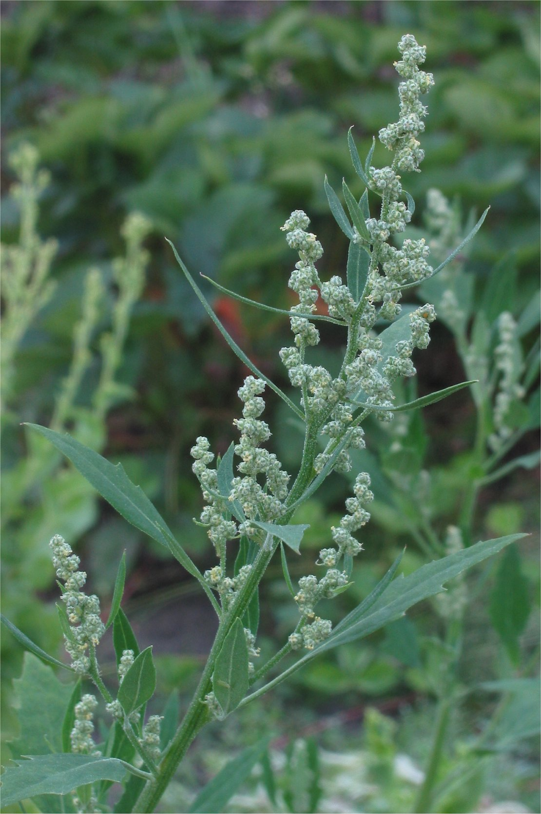 Chenopodium album, otherwise known as lamb's quarters, melde, or white goosefoot